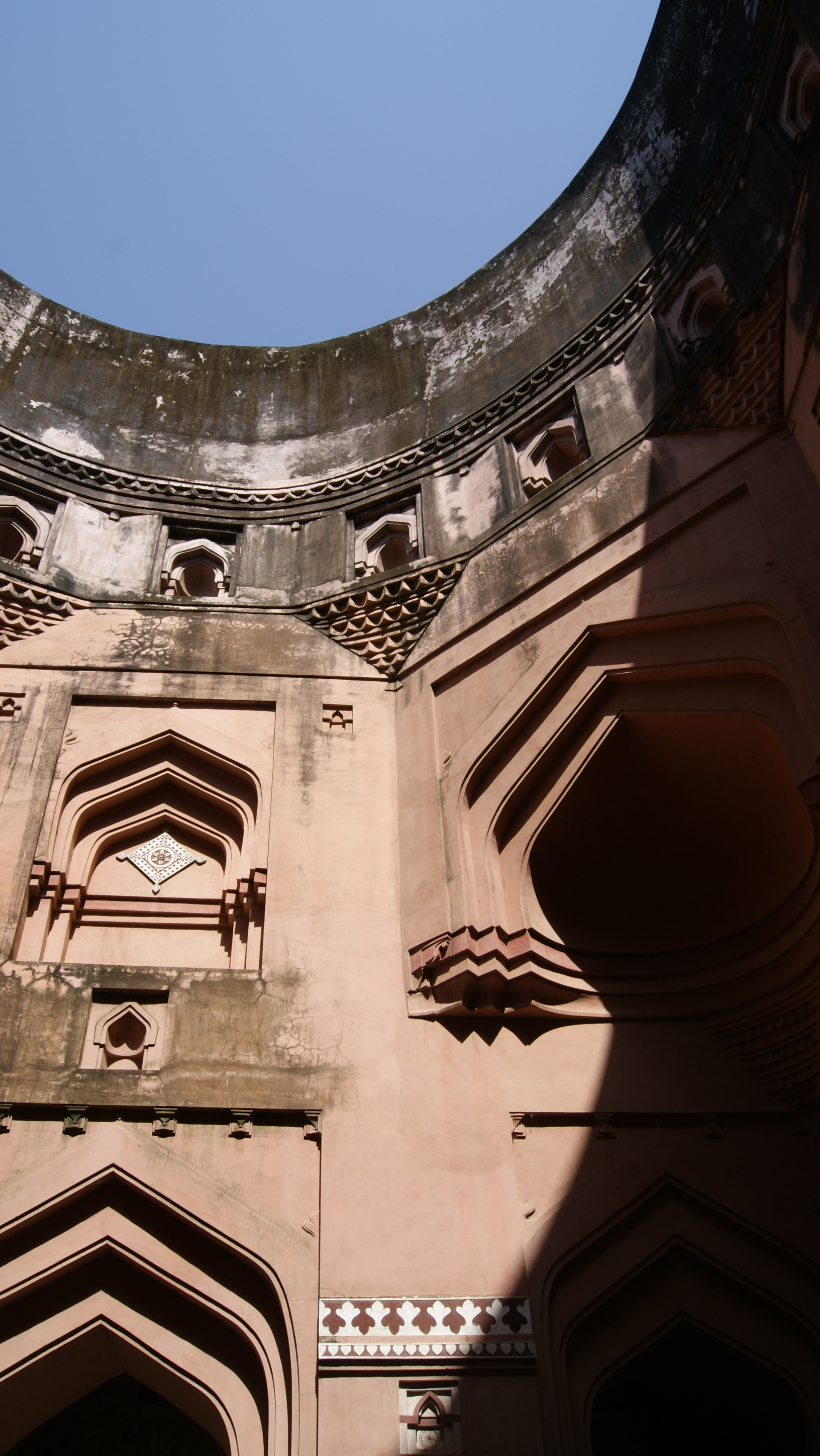 The tomb dome is circular and two graves placed exactly under it so that Lodi Sultan and the unknown can always see heaven together.